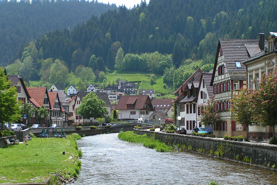 Schiltach, Black Forest, Baden-Württemberg, Germany.